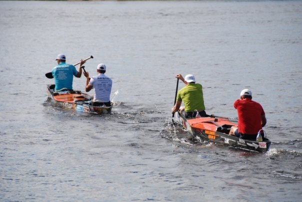 2009 "Classique internationale de canots de la Mauricie", a 3 day, 120 mile (193 km) marathon canoe race in the province of Quebec, Canada